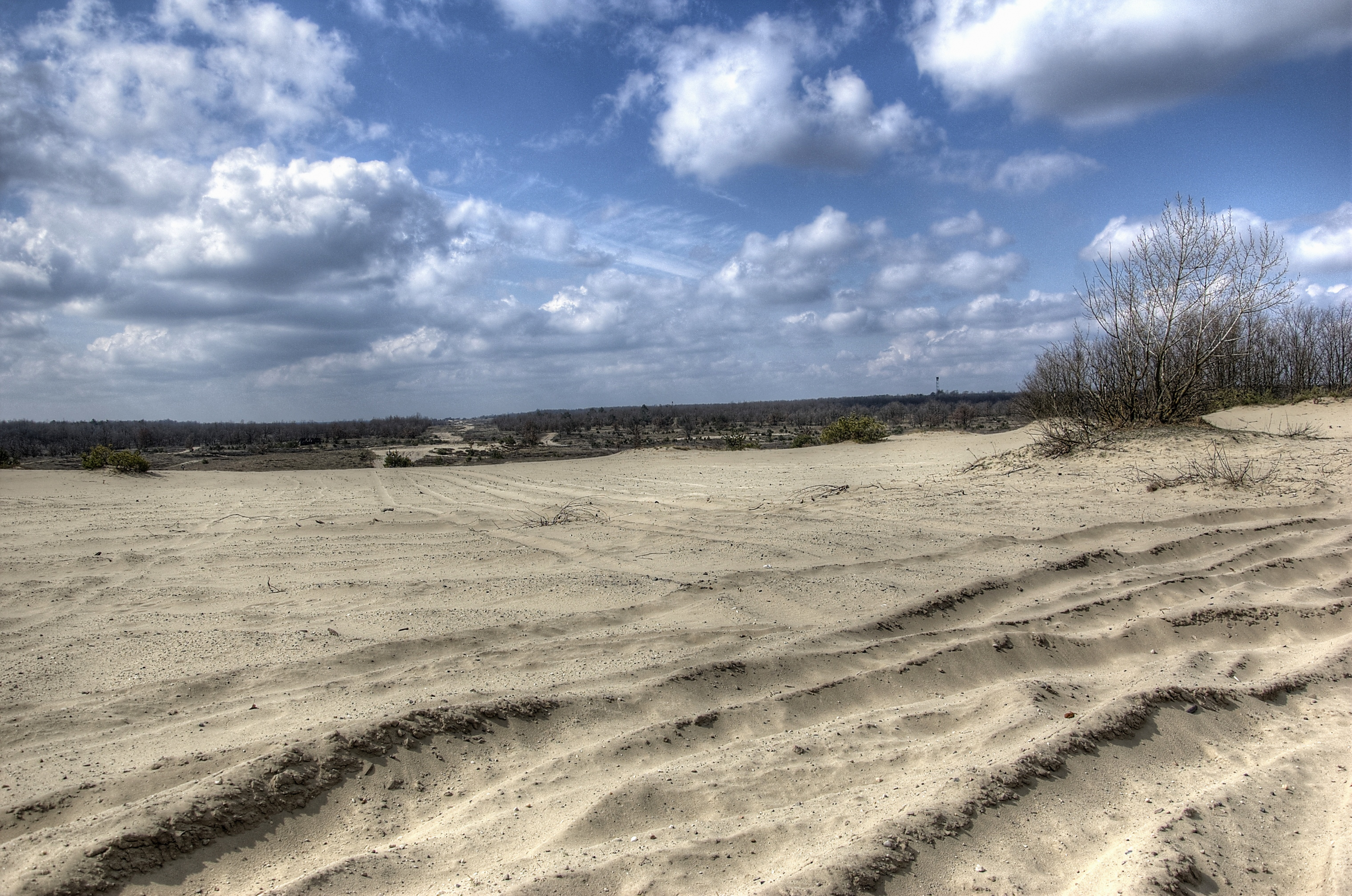 Sand dunes near Lakšárska Nová Ves